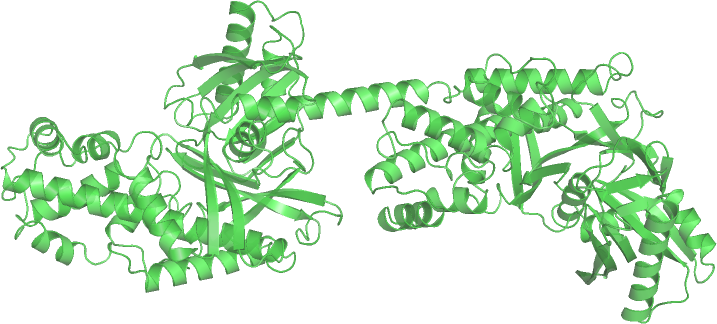 By Richard Wheeler (Zephyris) 2006. For the metabolic pathways wikiproject.